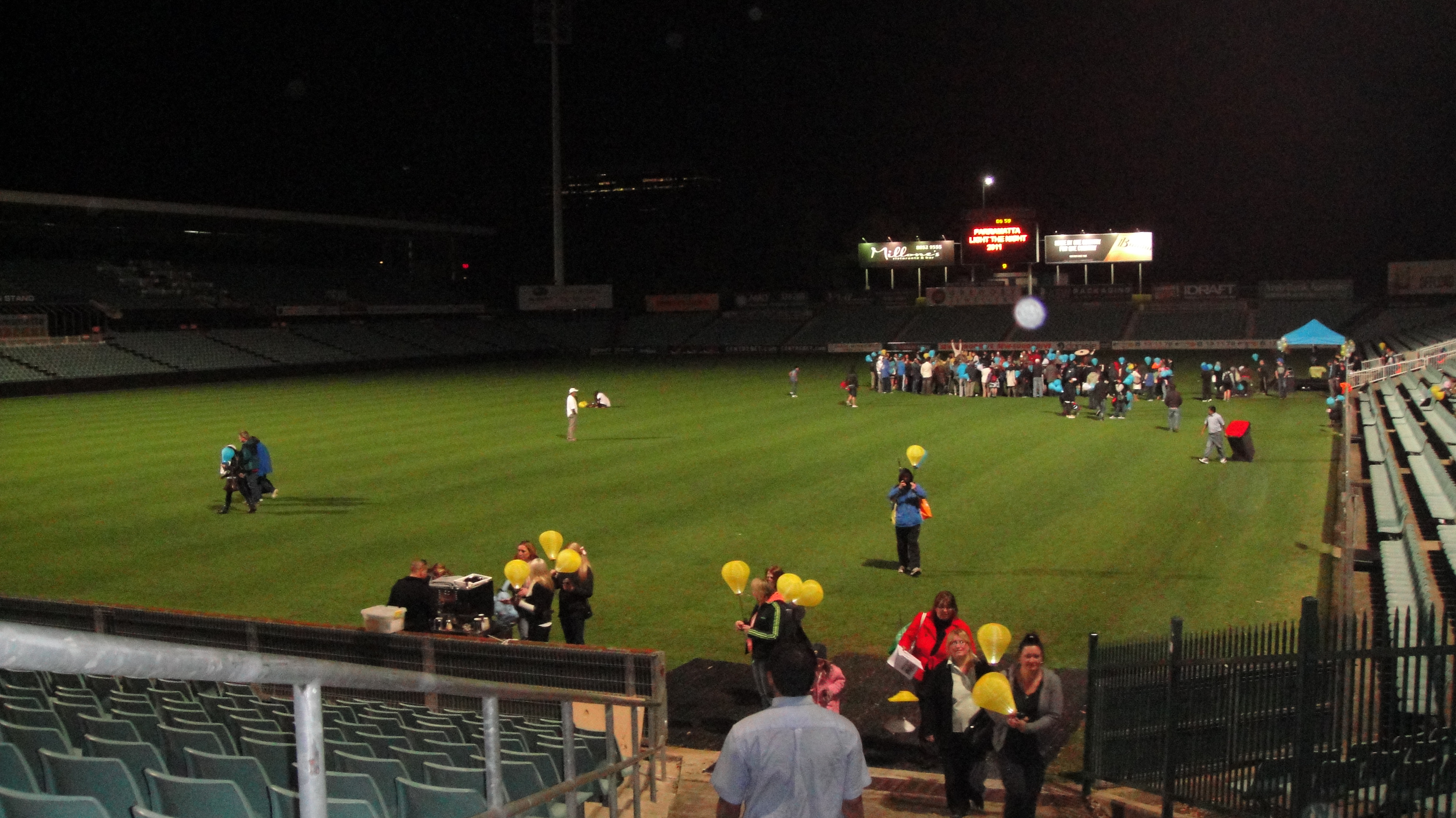 CityRail indicator board at Blacktown, New South Wales.